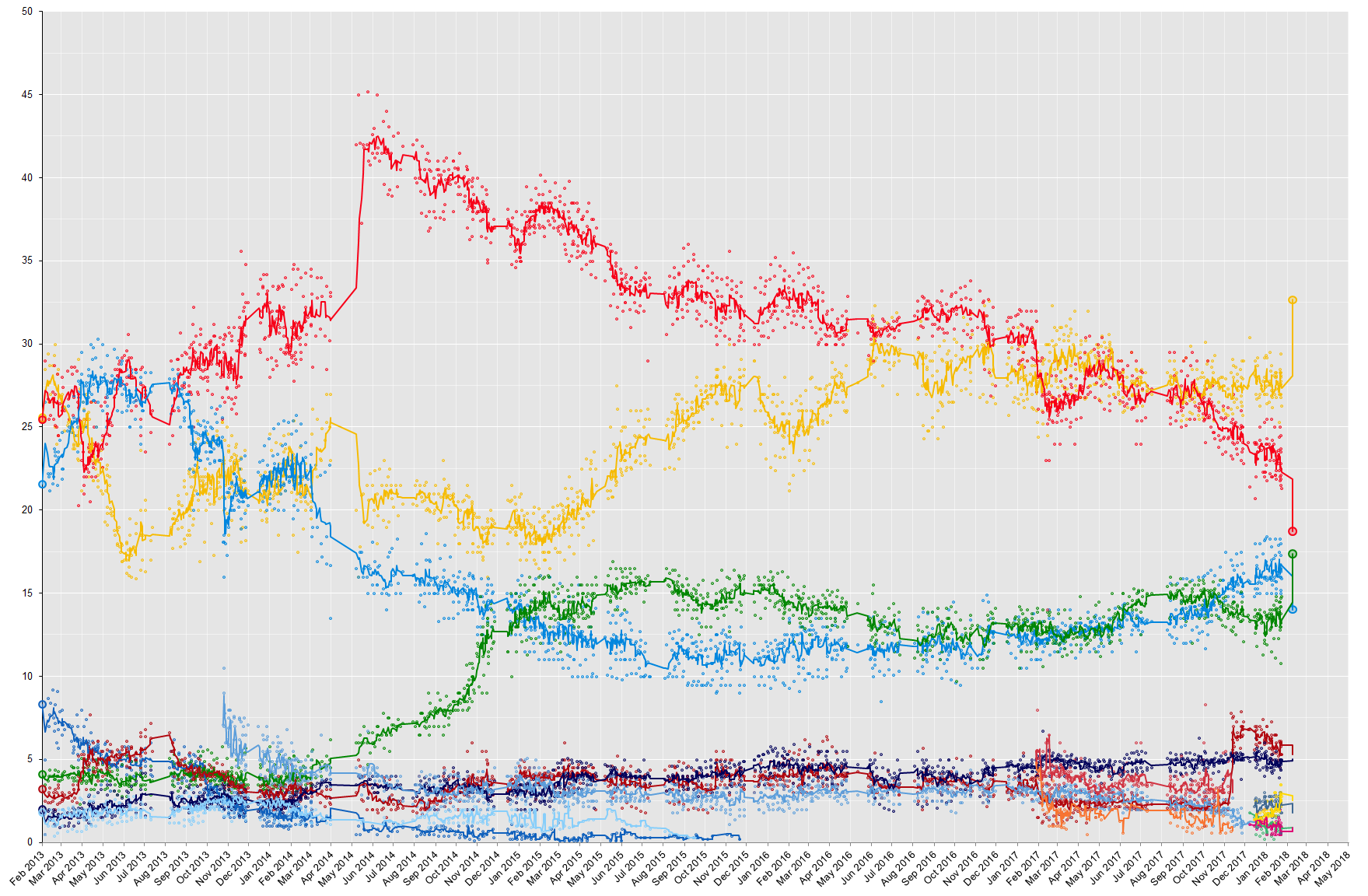 6-point average trend line of poll results from 25 February 2013 to the present day, with each line corresponding to a political party. Democratic Party (PD) Five Star Movement (M5S) Forza Italia (FI) New Centre-Right (NCD)/Popular Area (AP) Civic Choice (SC) Lega Nord (LN) Left Ecology Freedom/Italian Left (SEL/SI) Brothers of Italy (FdI) Union of the Centre (UdC)